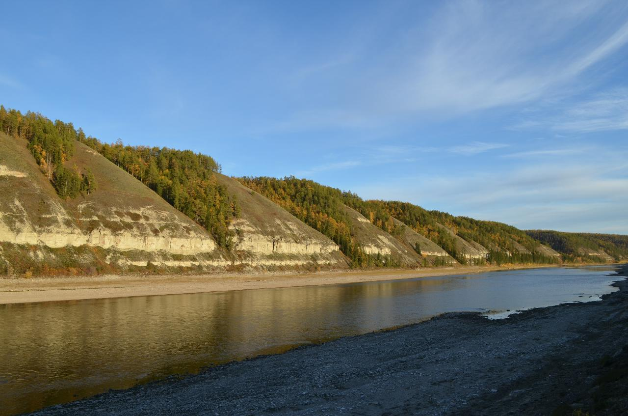 This photos are made during cruise Yakutsk — Lеnskiye Shchyoki, Lena Cheeks — Yakutsk (with arrival in Mirny), 05.09−17.09.2016